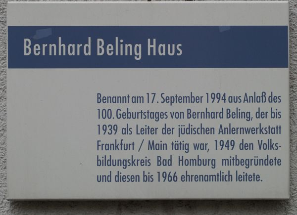 Commemorative plate for the naming of the Popular University of Bad Homburg